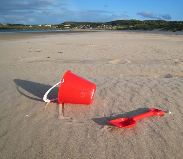 Buket and spade on Killahoey Strand Discarded bucket and spade on Killahoey Strand, Dunfanaghy. The view is towards Port na Blagh.